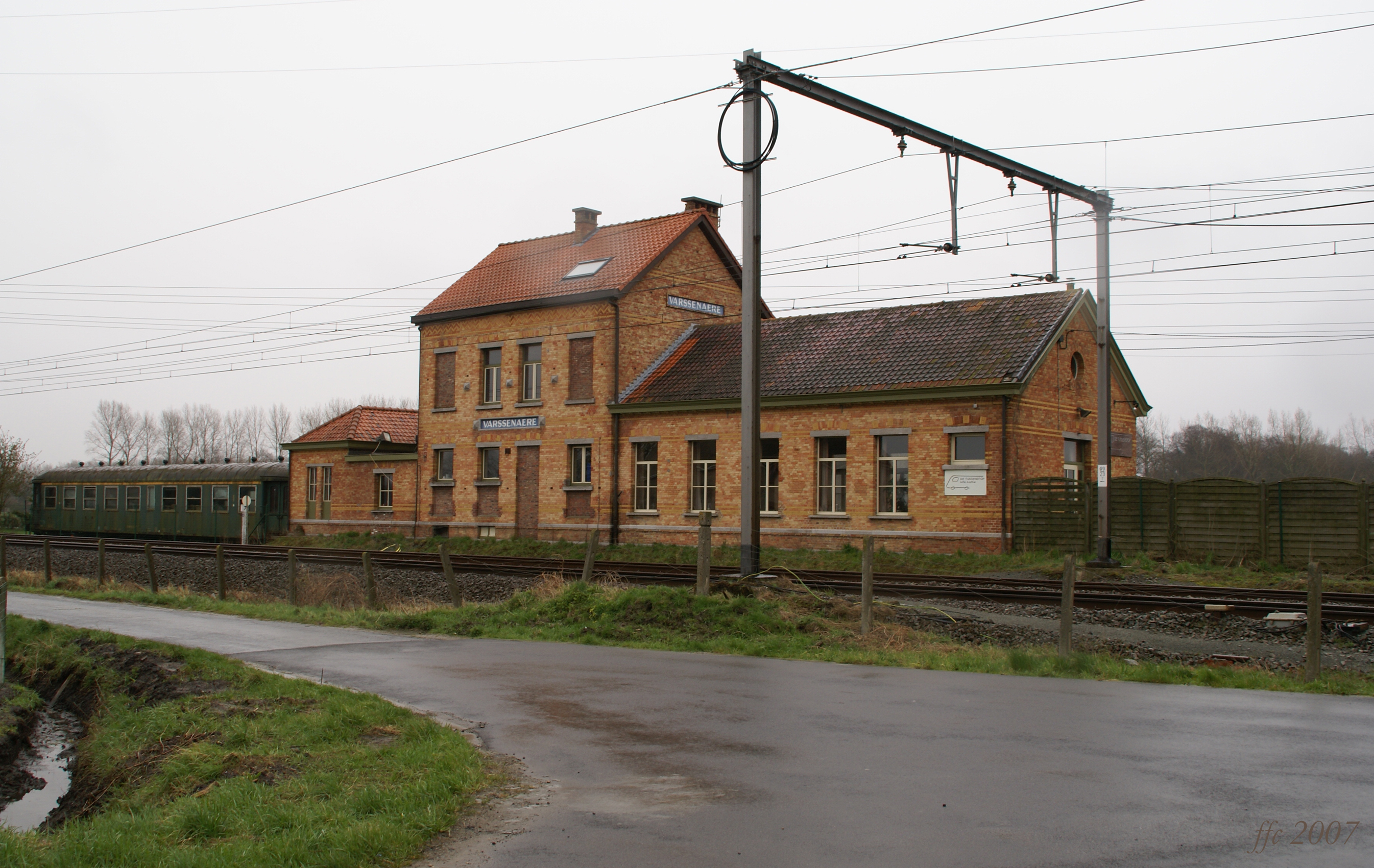 Varsenare (Belgium) Former railway station Voormalig NMBS-station Antiga estació Ancienne gare SNCB